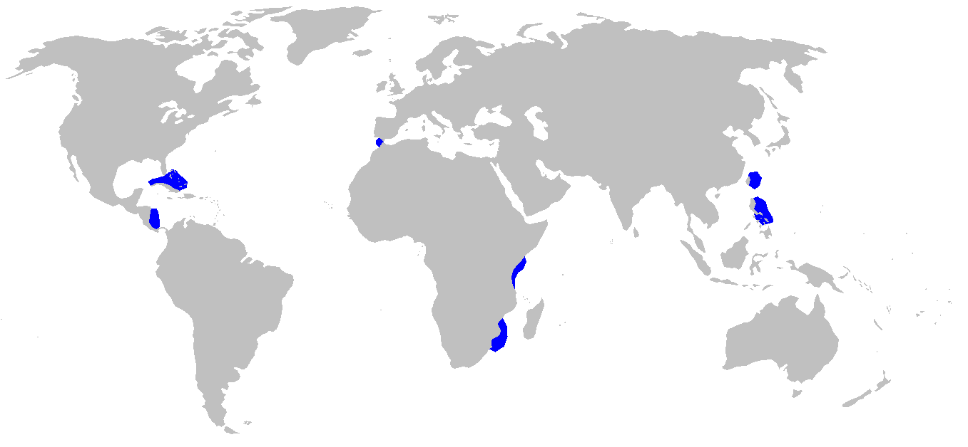 Distribution map for Hexanchus nakamurai